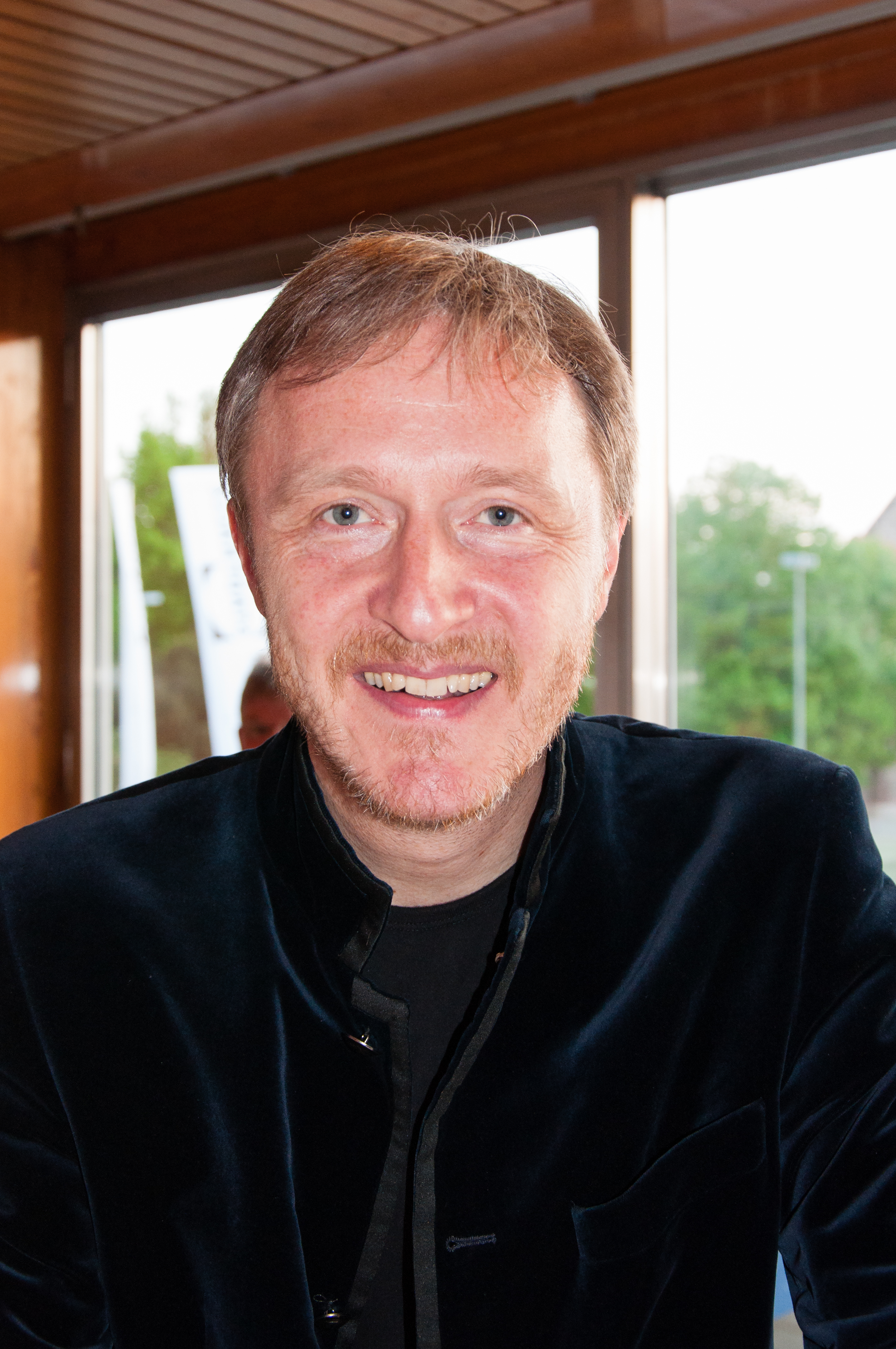 Oboist Albrecht Mayer during the break at the Göttingen International Handel Festival 2013